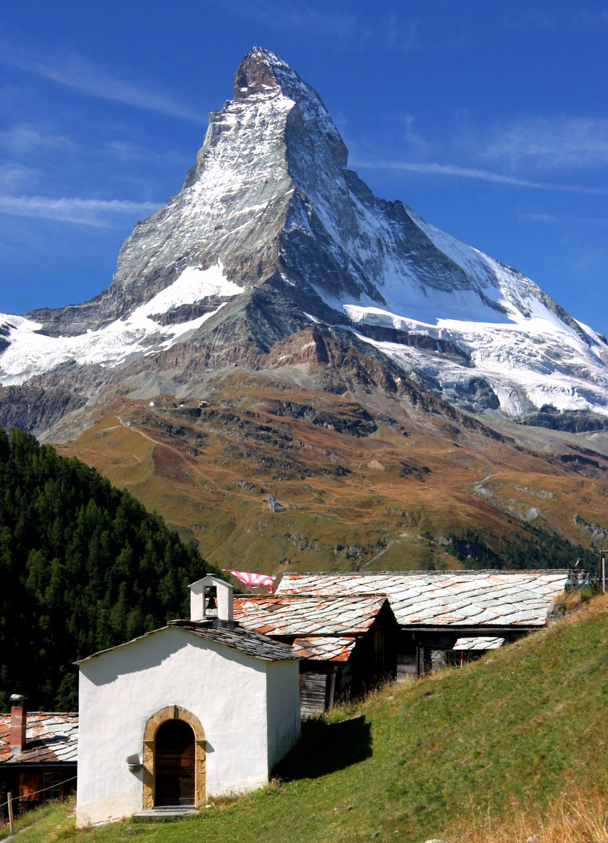 Findeln, near Zermatt